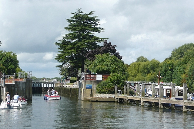 Bell Weir Lock Two small cruisers are not going to fill the lock, one of the biggest on the Thames.